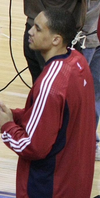 Cleveland Cavaliers player Dwayne Jones warms up before a playoff game at the Verizon Center, Washington, DC.